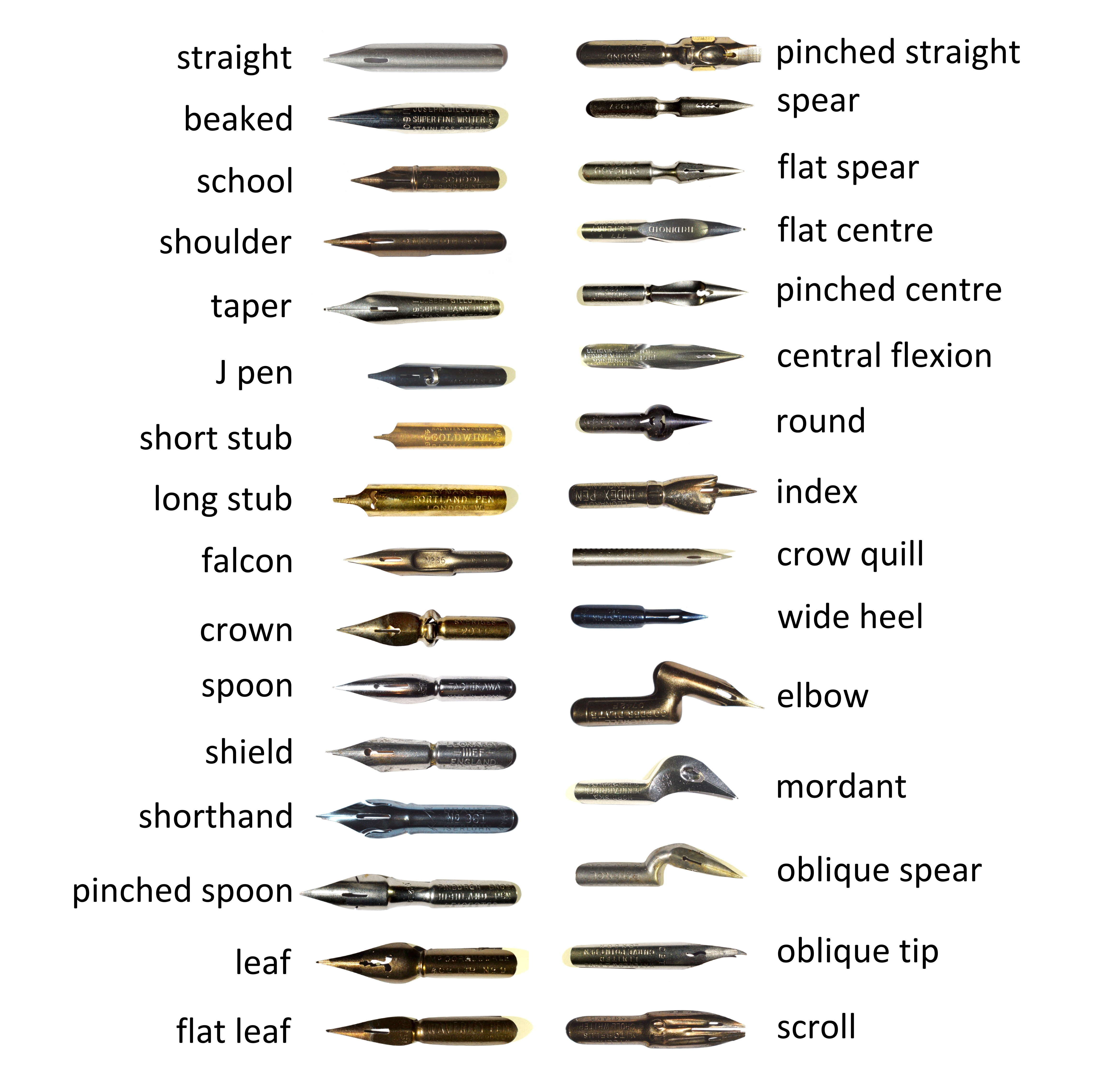 Some of the most common shapes of dip pens. Pen shapes are extremely varied and this is just a general selection and not exhaustive. Pens were also manufactured in many other variants and some may diverge significantly from the shapes collected here. Additionally, many shapes of pens were manufactured with different nib widths and types, as well as different levels of flexibility, so a huge number of combinations is possible. The specific dip pens depicted here are: straight: Geo. W. Hughes № 312 M White Horse beaked:Joseph Gillott's 1160 Super Fine Writer school: Hunt 56 Round Pointed shoulder: Geo. W. Hughes 304 Million Pen taper: Joseph Gillott's 1167 Super Bank Pen J pen: Macniven & Cameron J № 10 B short stub: Macniven & Cameron 456 Goldwing long stub: Ryman's Portland Pen falcon: M. Myers & Son № 35 EF crown: Sveriges Pennfabrik 20 EF spoon: Tachikawa № 600 EF shield: Leonardt 111 EF shorthand: Brause № 361 pinched spoon: Finburgh Bros № 242 M Highland Pen leaf: McCorquodale & Co. № 9 flat leaf: Macniven & Cameron Waverley pinched straight: Leonardt Round 1 spear: Cervantinas 1927 flat spear: Blanzy-Poure & Cie Plume Chicago flat centre: E. S. Perry Iridinoid 777 pinched centre: Blanzy-Conté-Gilbert № 255 Henry's Supérieure central flexion: Nordiska Pennfabriken 35 EF round: Baignol & Farjon 395 index: Leonardt Index Pen crow quill: J. B. Mallat № 130 EF wide heel: Joseph Gillott’s 1950 Artist's Pen elbow: William Mitchell's 0742 F Copperplate mordant: Nordiska Pennfabriken 47 EF NEB oblique spear: Baignol & Farjon 2800 EF Baïonnette oblique tip: Waterlow & Sons 150 Curve Point Pen scroll: William Mitchell's Scroll Writer 10